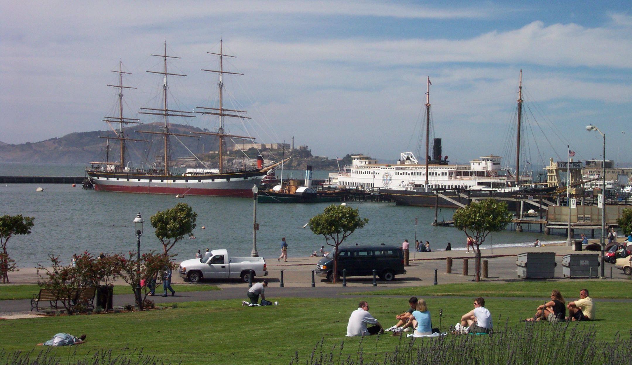 Historic ships of the San Francisco Maritime National Historical Park moored at Hyde Street Pier in Aquatic Park, with Alcatraz and Angel Island in the background..